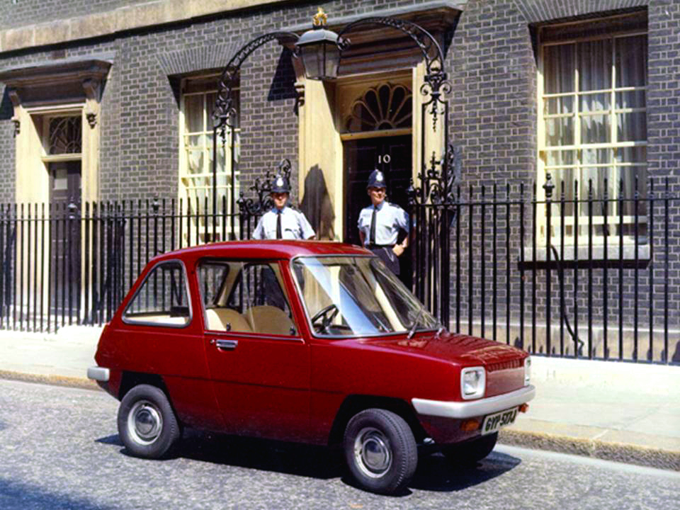 From the Endfield Automotive, Electricity Council and Constantine Adraktas archives.